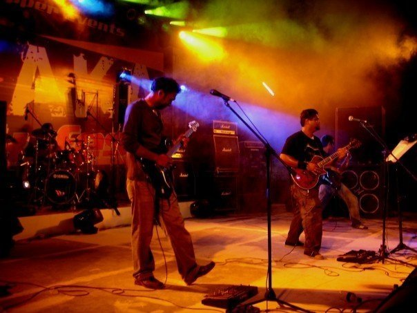 Artcell